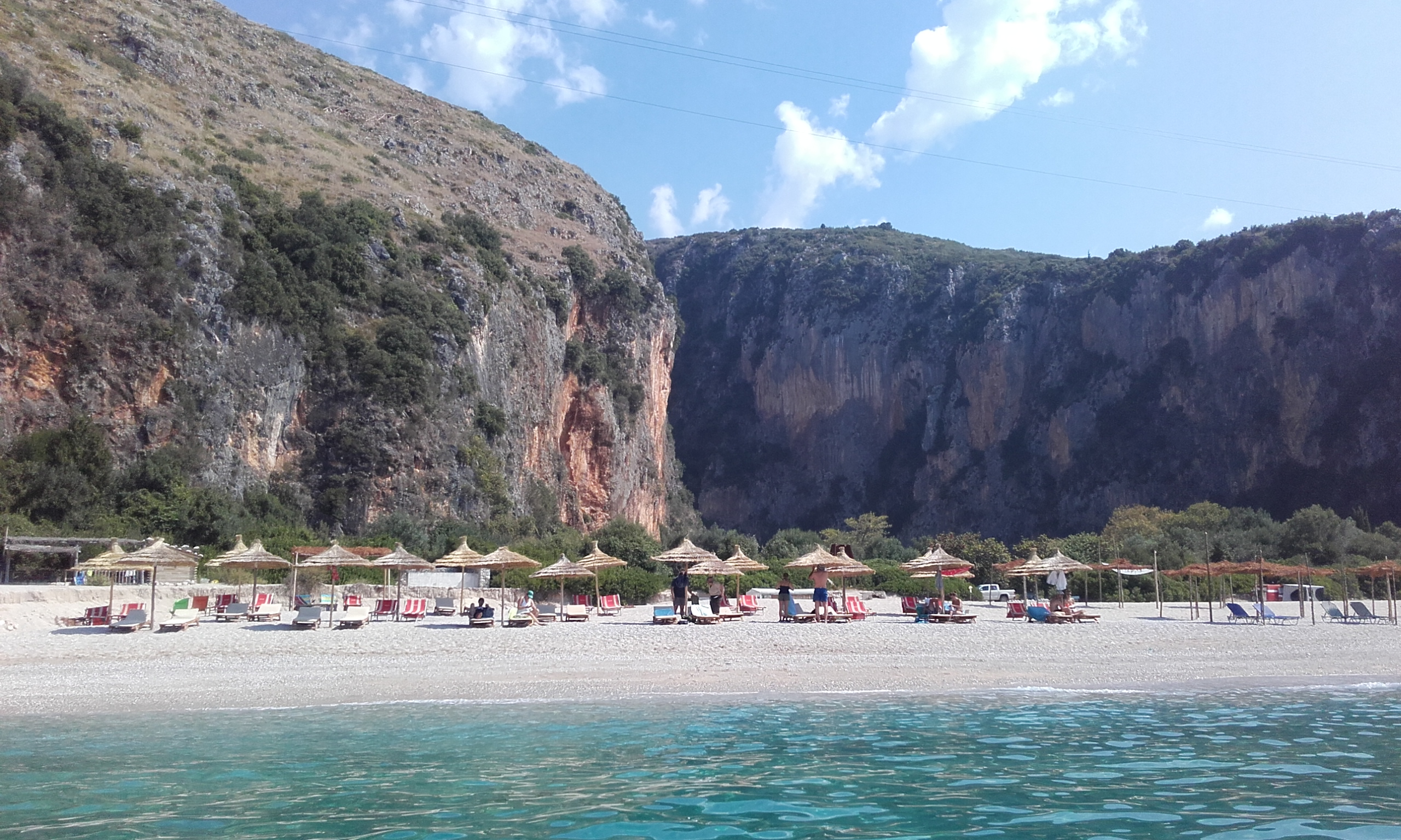 View of Gjipe beach